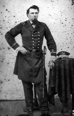 Leon Smith, Confederate commander Marine Department of Military District of Texas, New Mexico, and Arizona - in uniform during Civil War.